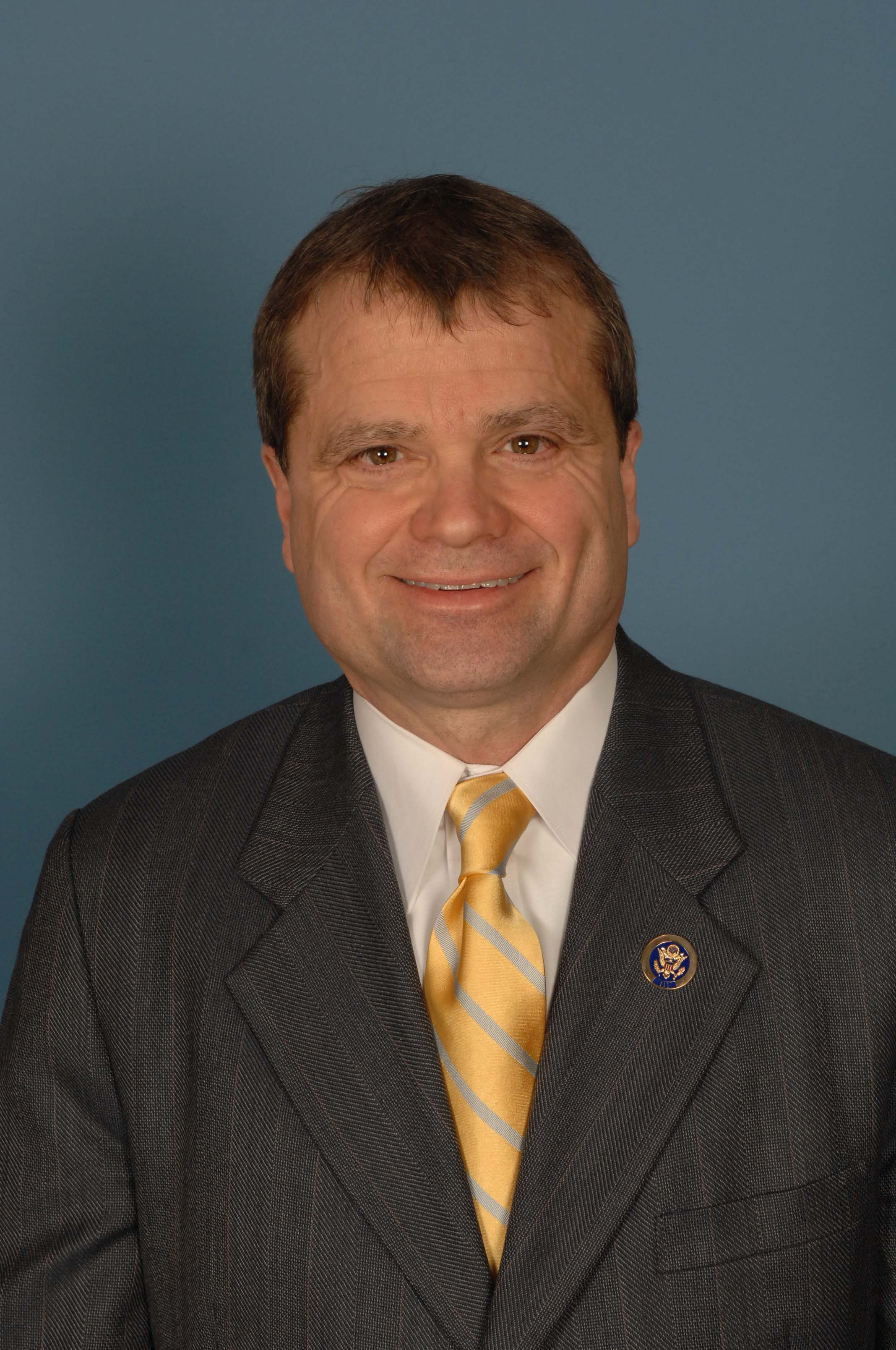 Official portrait of United States Representative Michael Quigley.